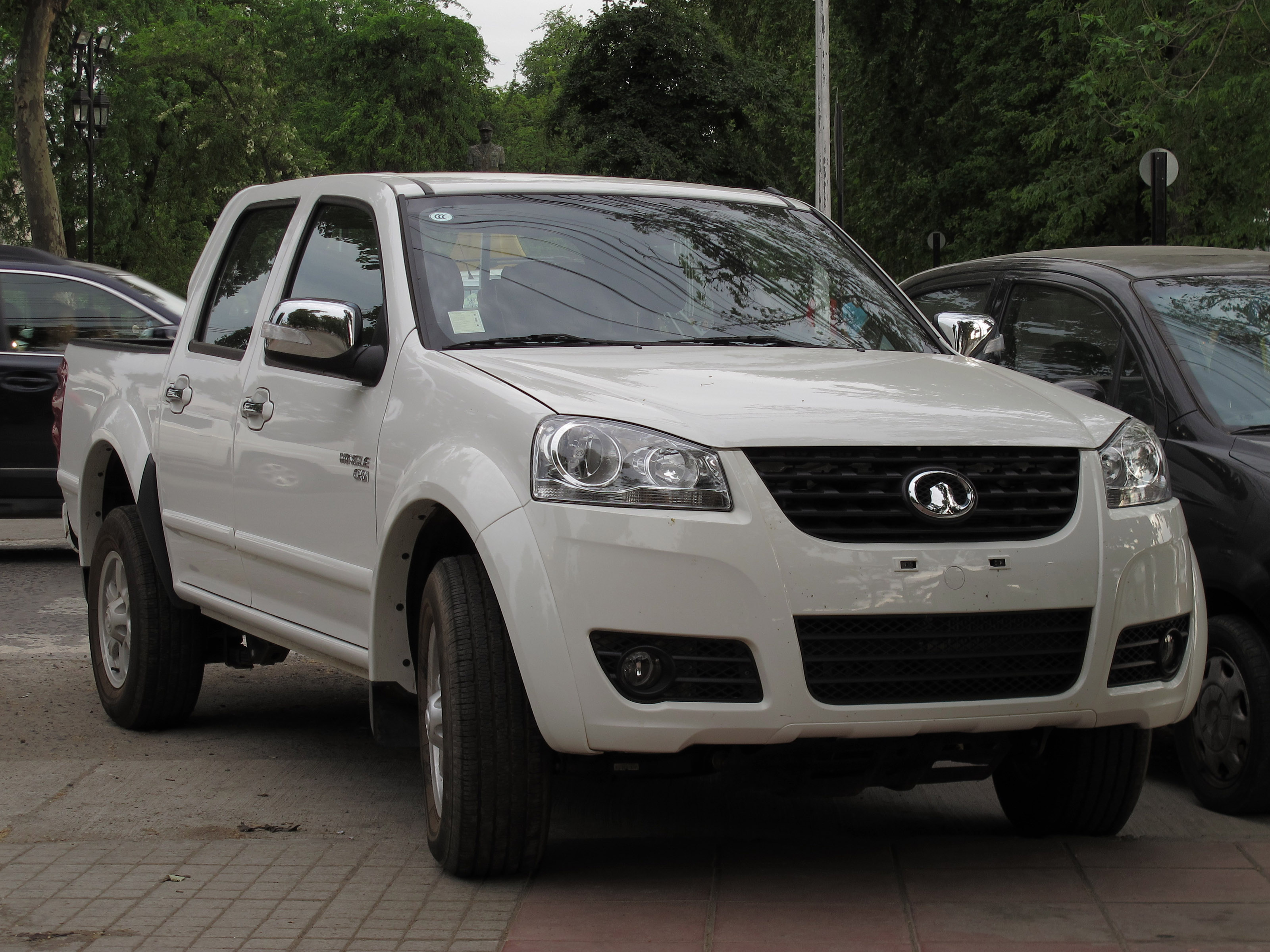 Great Wall Wingle 5 2.0 CRDi 2015